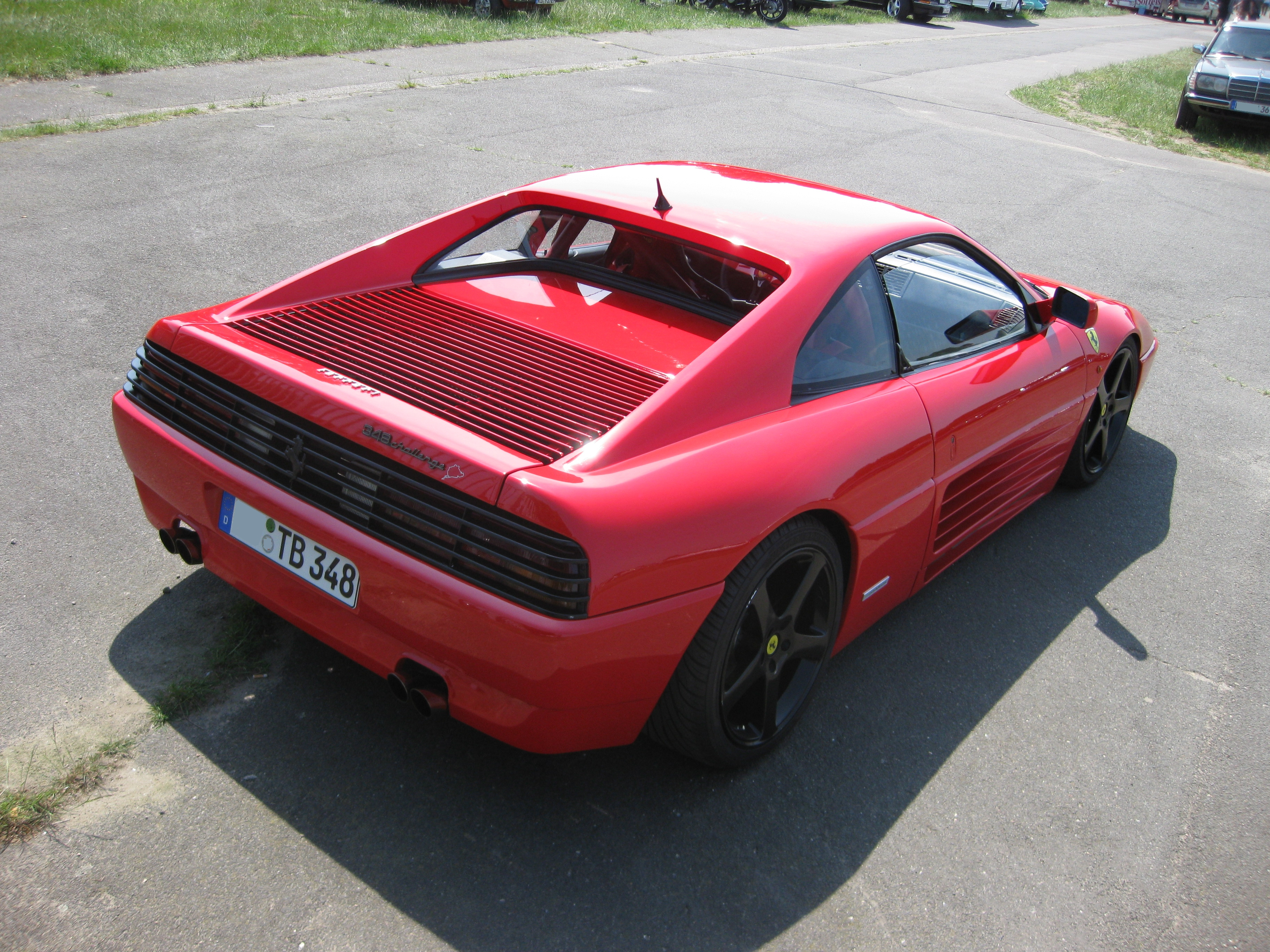 Ferrari 348 Challenge